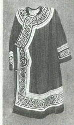 Nanai (Hezhe) woman costume called "pokto". Česky: Nanajský ženský oděv - "pokto".